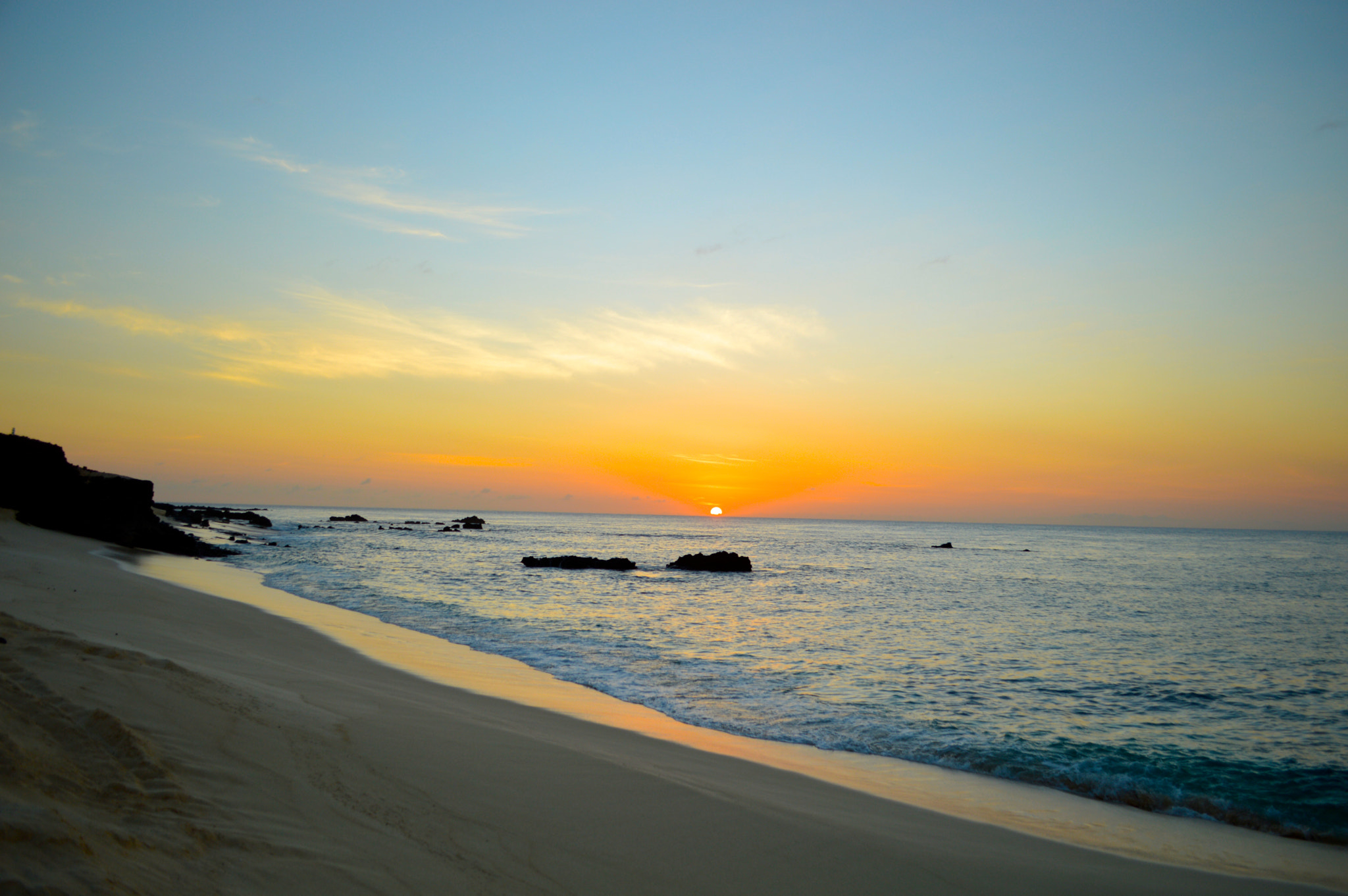 500px provided description: Sunset over Ascension Island [#Landscape ,#Beach ,#Landscapes ,#Red ,#Sun ,#Sunset ,#Sea ,#Ocean ,#Sand ,#Island ,#Atlantic ,#Ascension ,#South Atlantic ,#Ascenson Island]